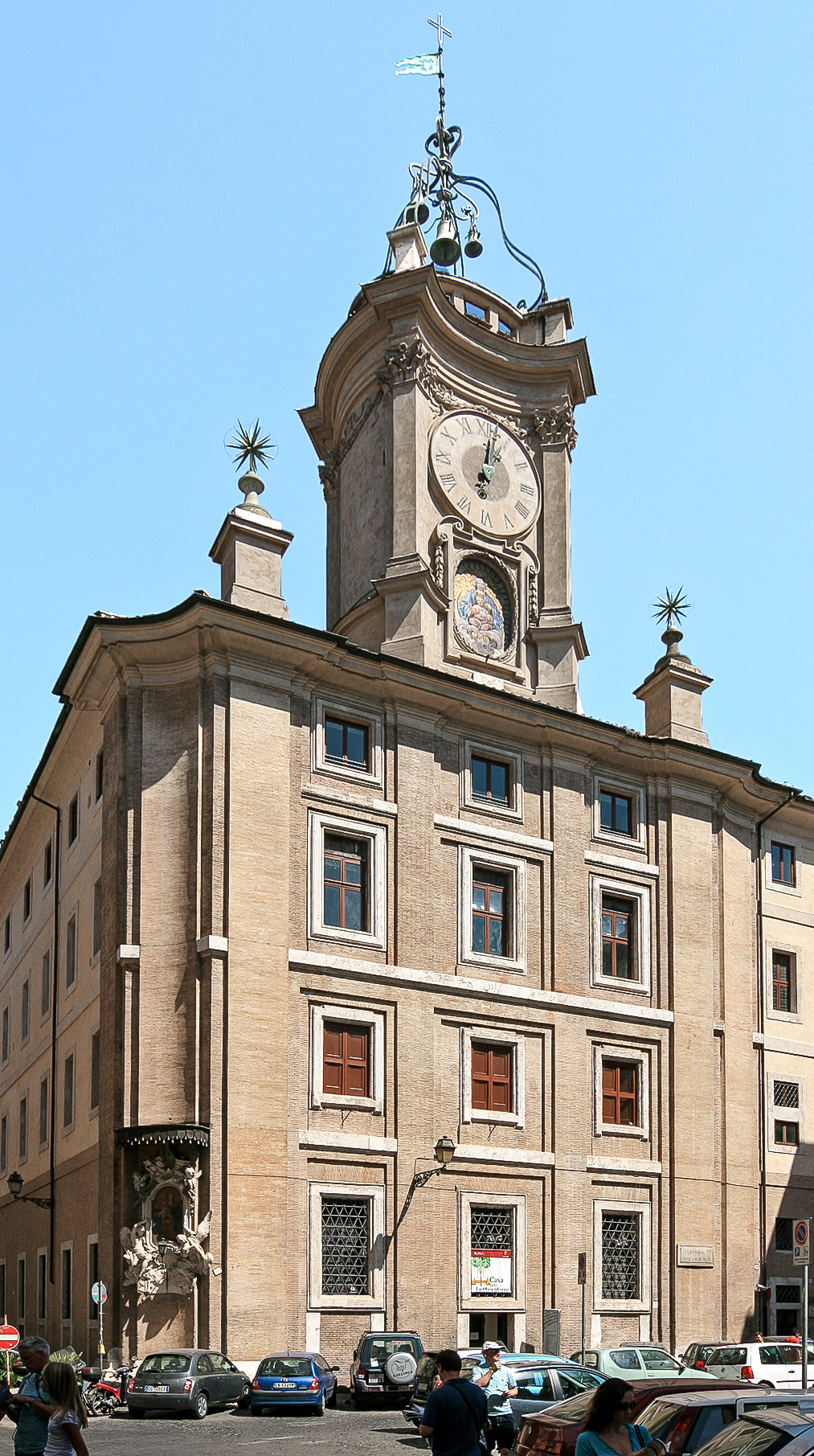 Oratorio dei Filippini, Rome. The clock tower on Piazza dell'Orologio.